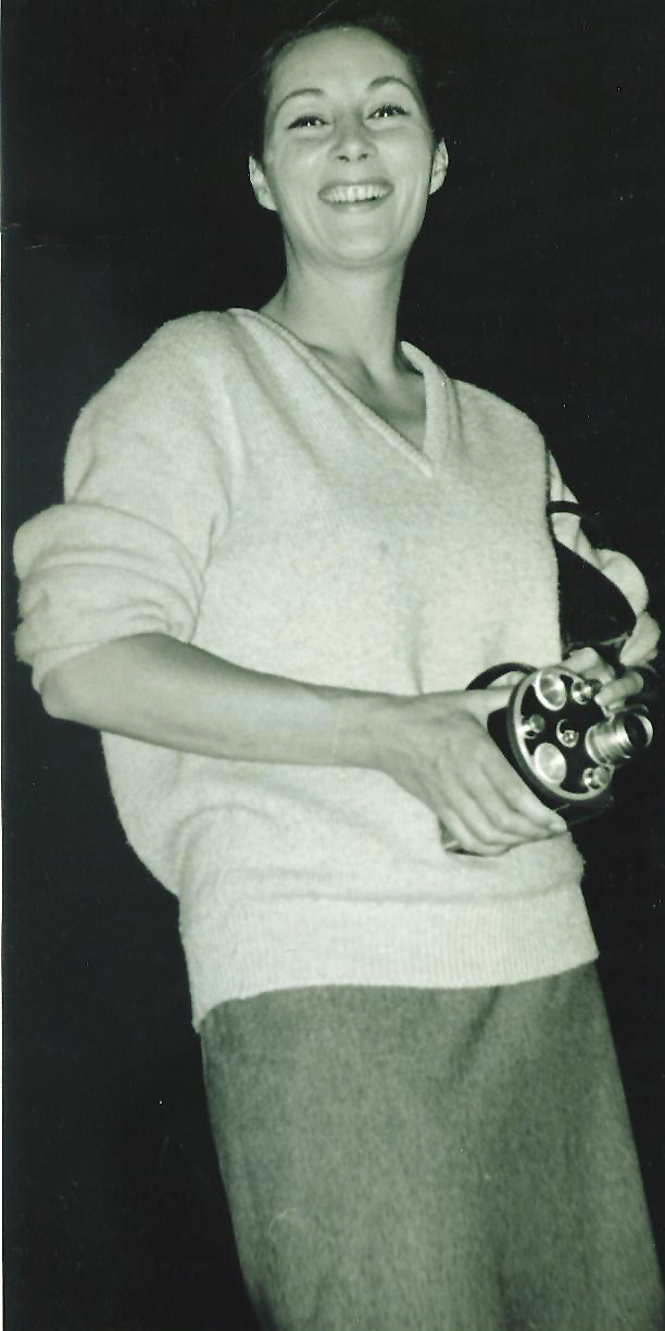 Rosemary Harris, actress, in July 1962, during her appearance in repertory at the Chichester Festival Theatre, West Sussex, UK, during the theatre's opening season.